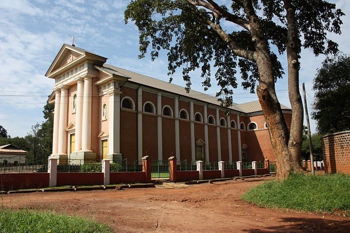 St. Joseph's Cathedral i Gulu. The center of the Mission in Northern Uganda and Southern Sudan.